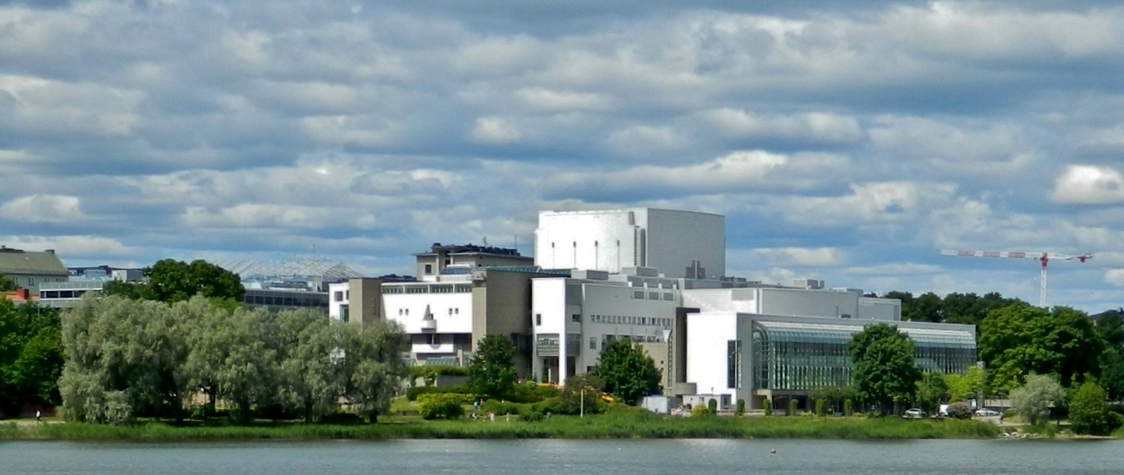 Finnish National Opera House from Töölö Bay